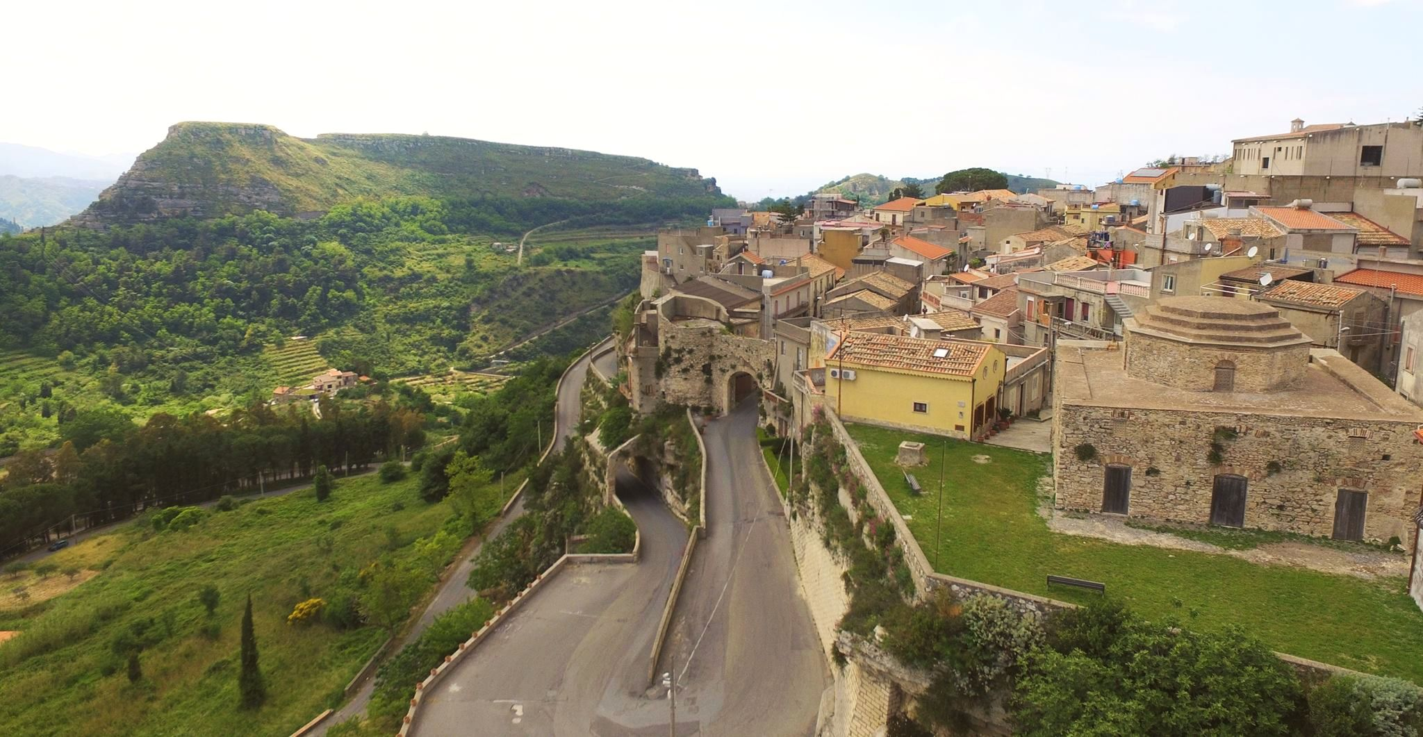 Rometta sky vision